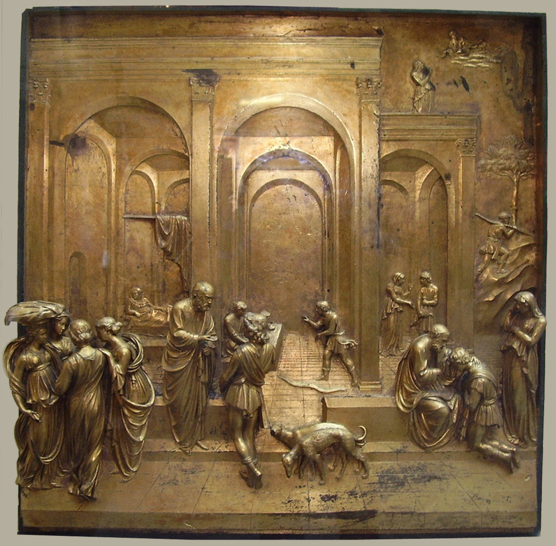 panel from the bronze doors on the baptistry of Florence